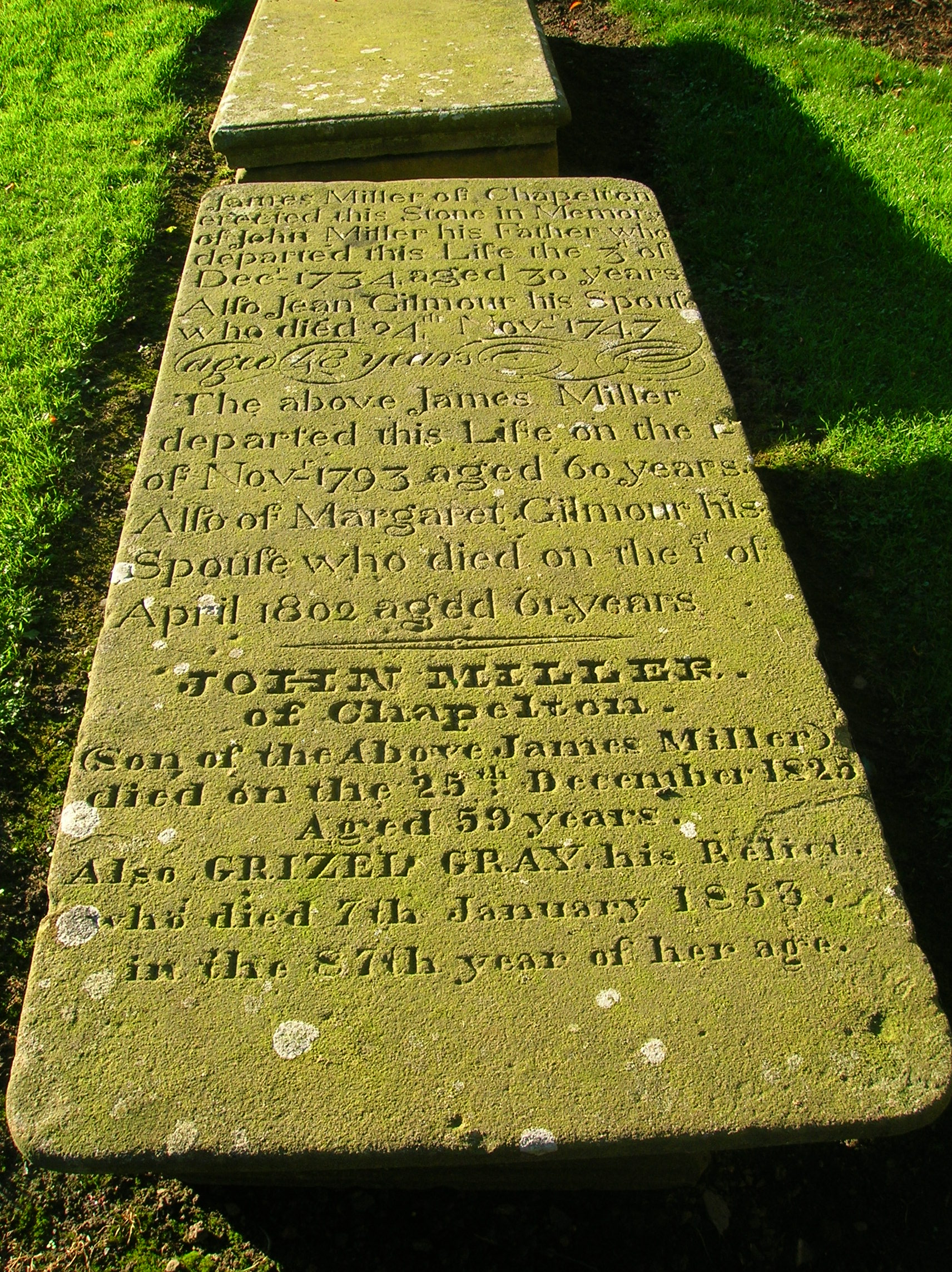 The Miller family of Chapelton's grave in the Laigh Kirk cemetery, Stewarton, East Ayrshire, Scotland.